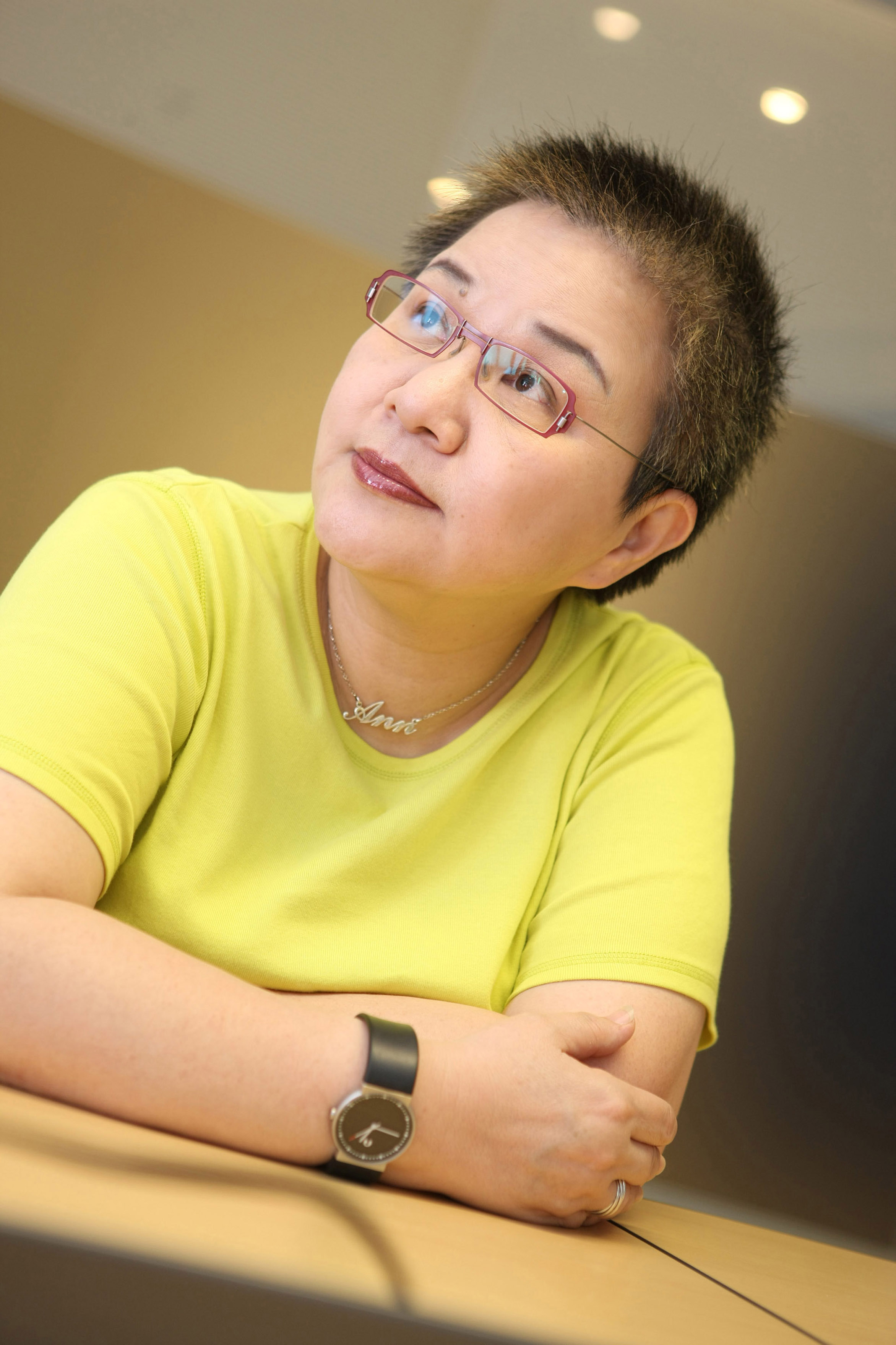 Ann Hu's photo